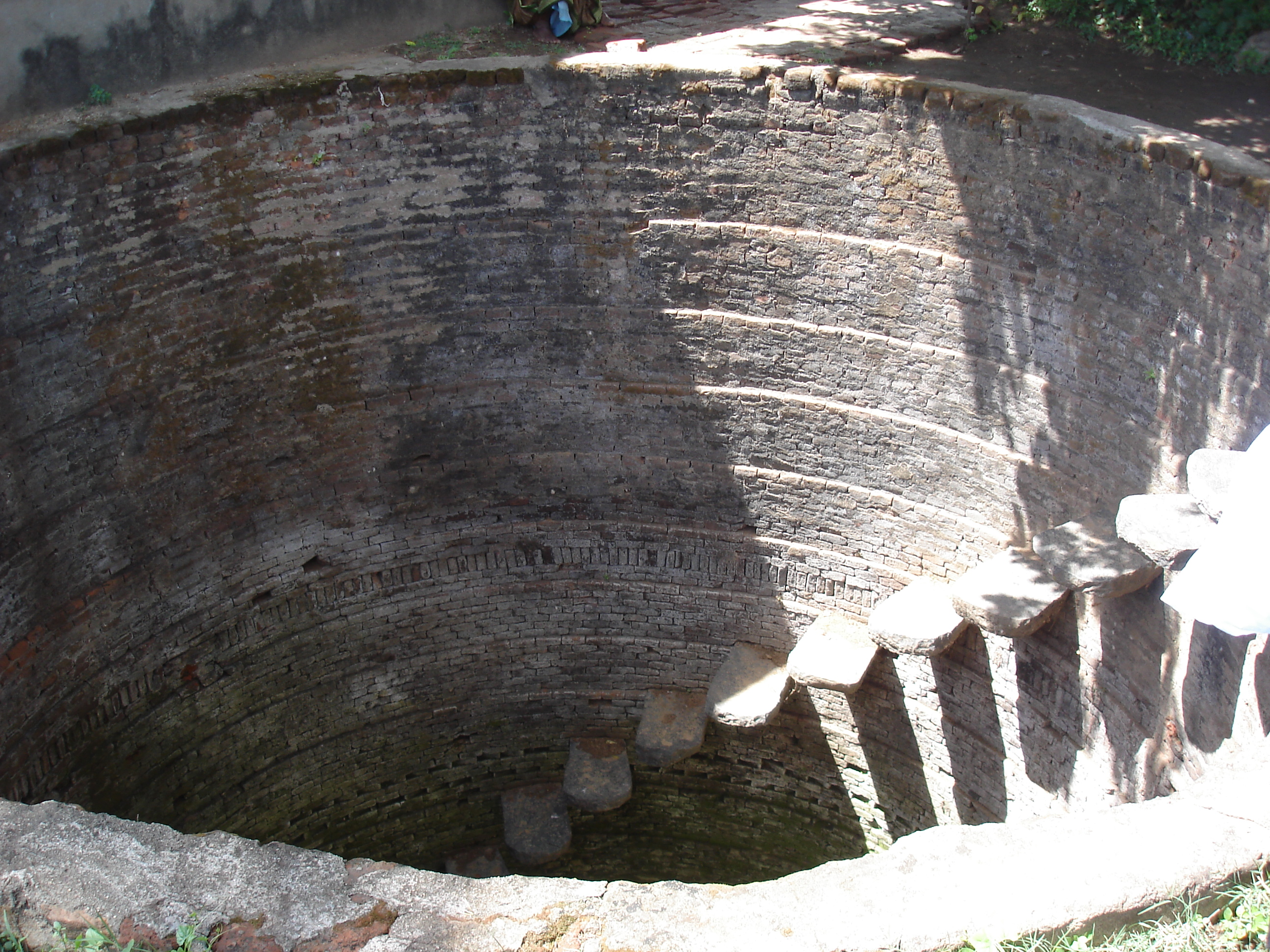 Old dry well in Chennai, Tamil Nadu, with stone walls and a staircase.